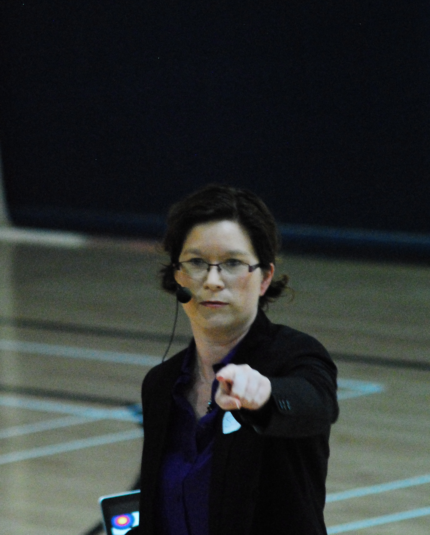 I was in the audience when Marie O'Riordan made an address lasting several hours at the University of Limerick Sport Arena in Limerick, Ireland in 2012 where I took this photograph.